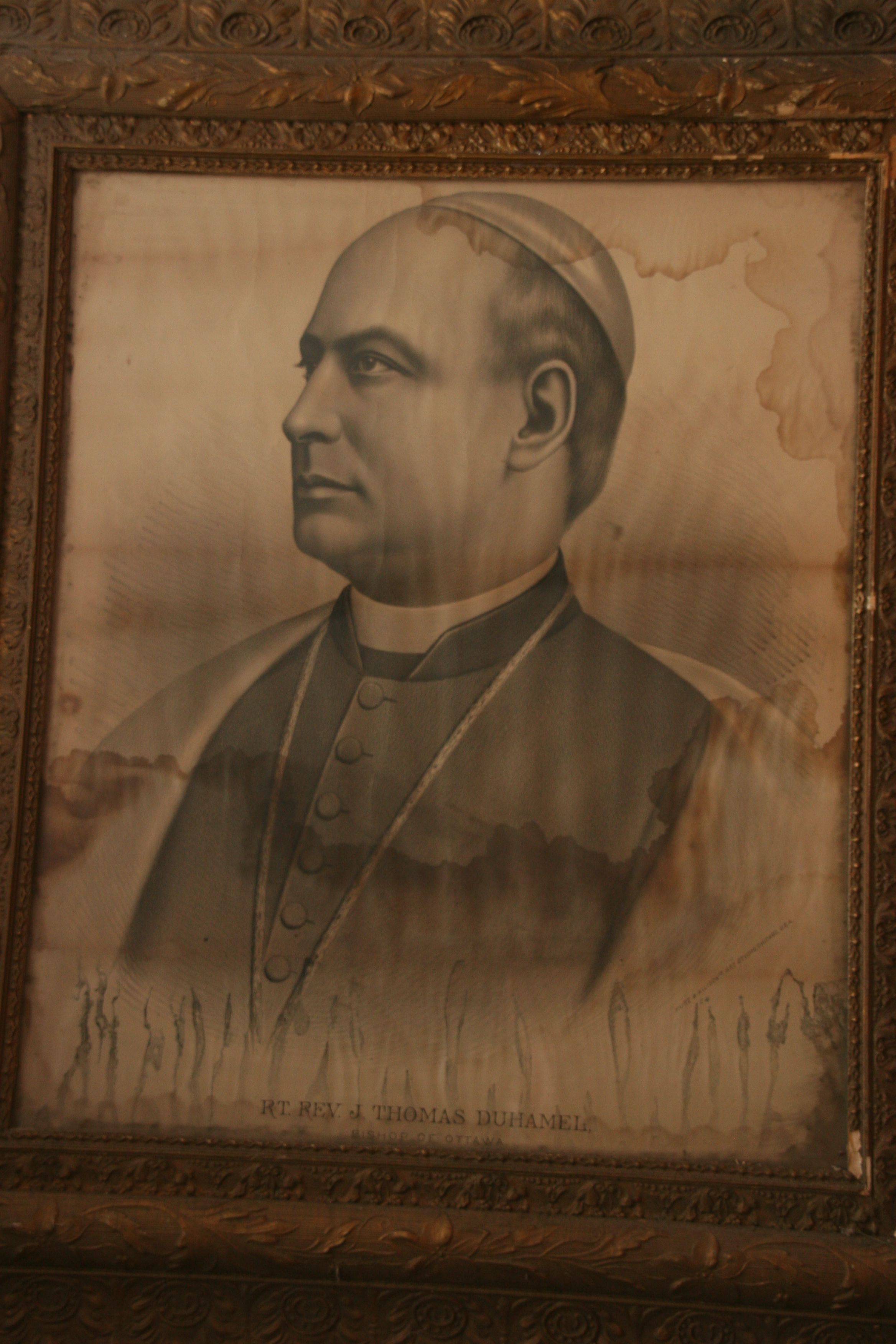 Bishop Duhamel of Ottawa